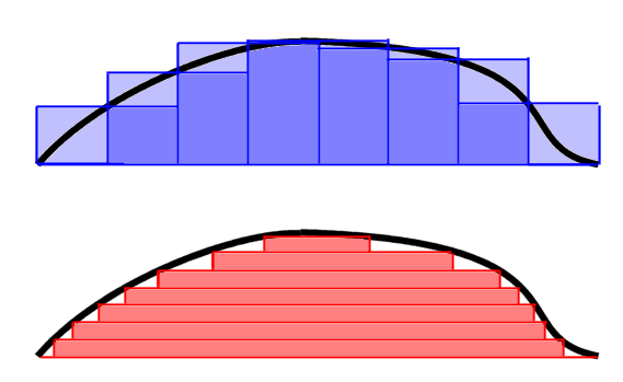 Riemann integration/Riemann (blue) and Lebesgue integration (red)